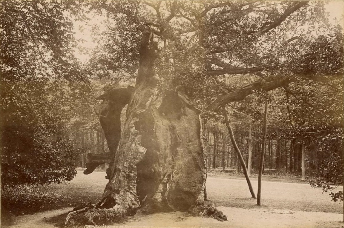 Robin Hood's Larder tree from an 1880 postcard